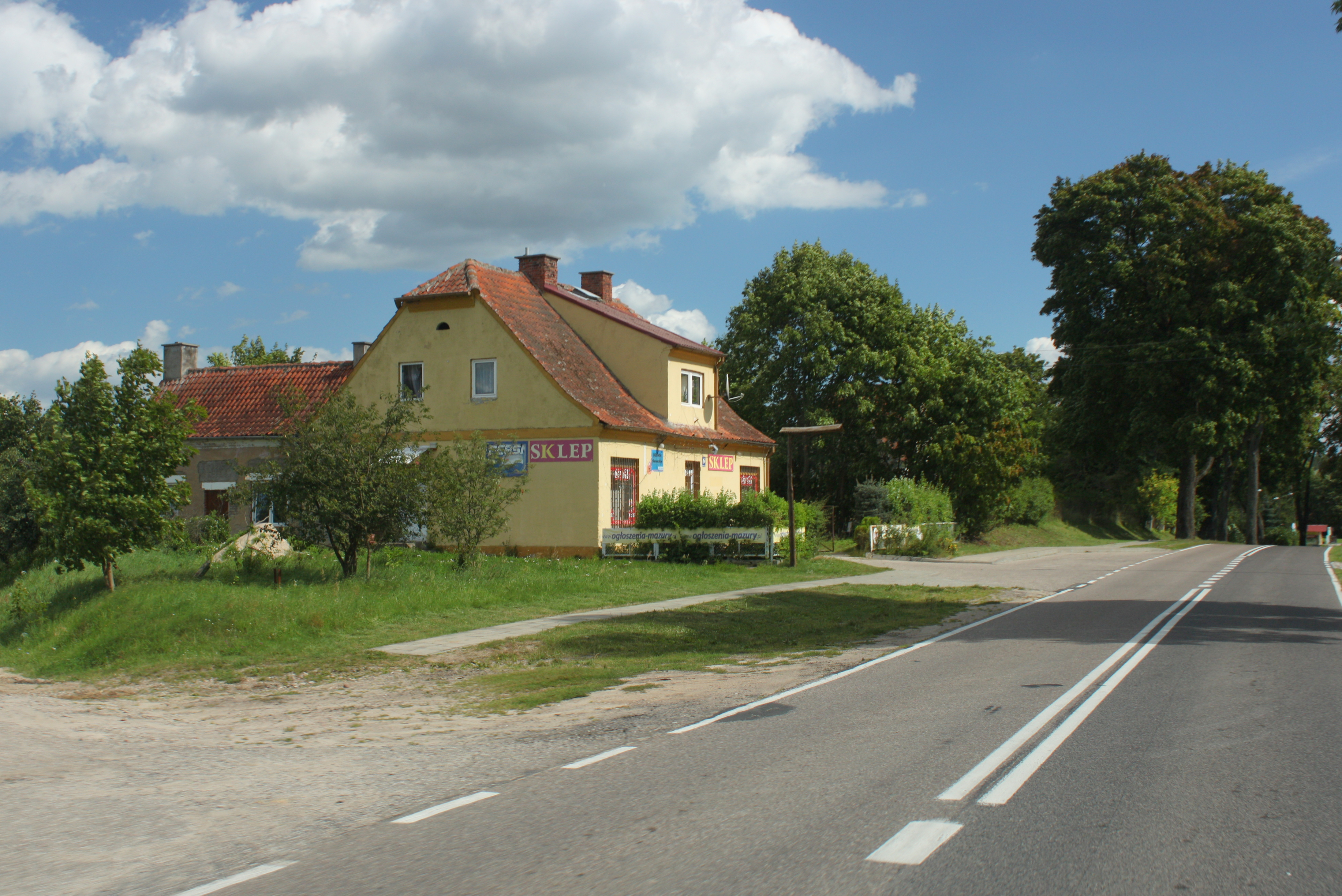 Road in Kosewo.